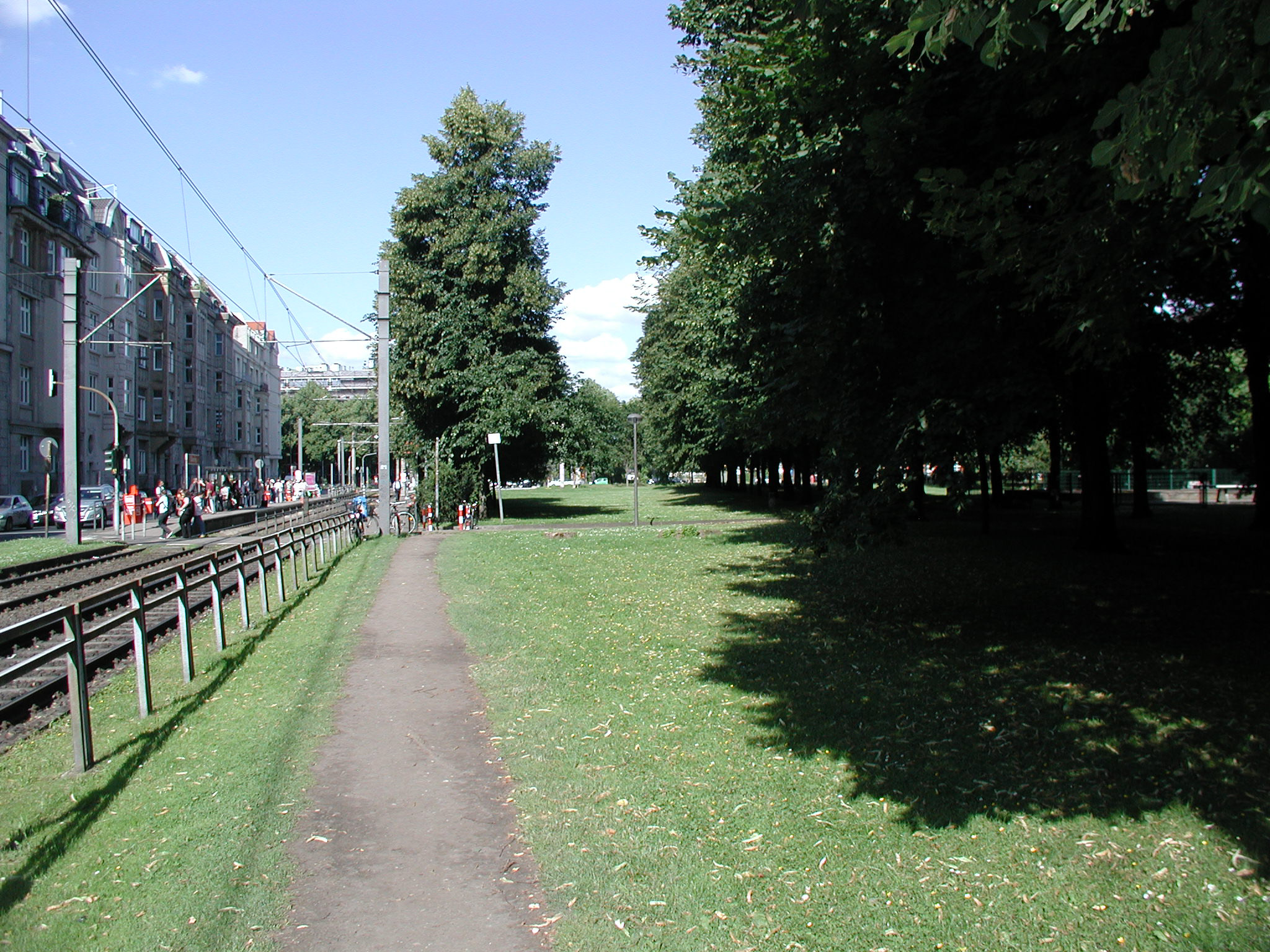 Cologne, at the beginning of Ubierring